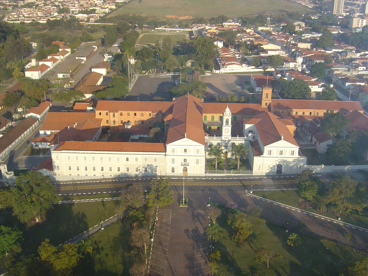 Brazilian Army 2nd Field Artillery Group